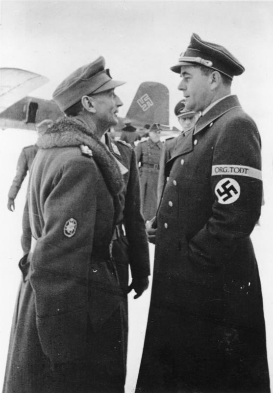 Reich Minister for Armaments and head of Organisation Todt (OT ) Albert Speer in conversation with Commander of Army Group Lapland Colonel-General Eduard Dietl during a visit to units of Armed services on an airfield in December 1943.